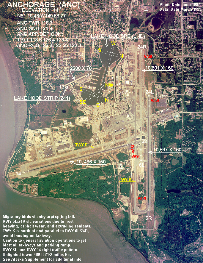 Anchorage (ANC) Airport Overhead